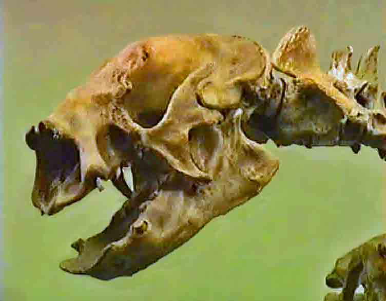 Skull of Lestodon armatus at the Harvard Museum of Natural History